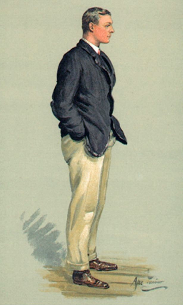 Robert Croft Bourne - “A Good Stroke” - Ape Junior - March 29, 1911